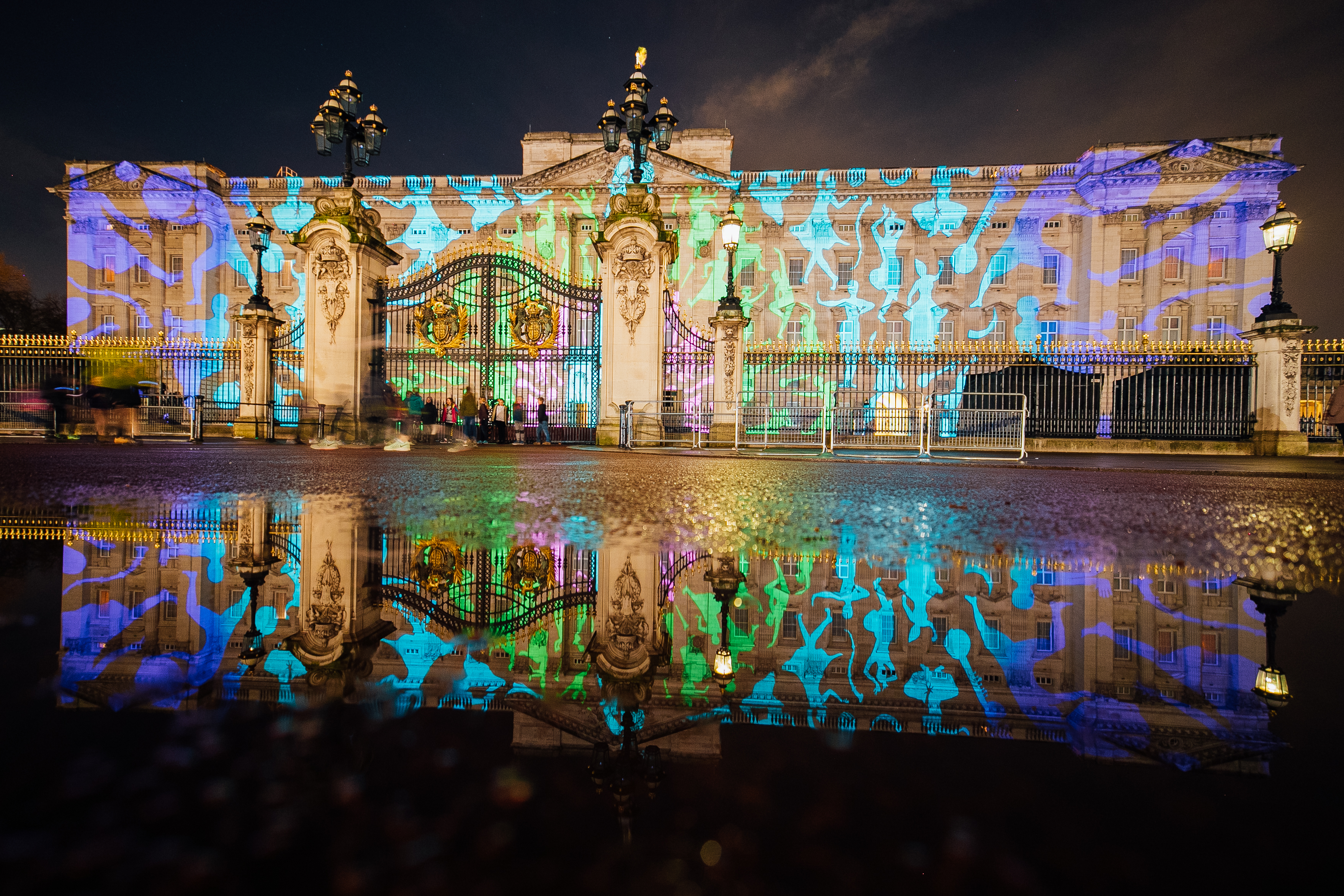 The official launch of the UK-India launch with a Studio Carrom designed projection onto the facade of Buckingham Palace